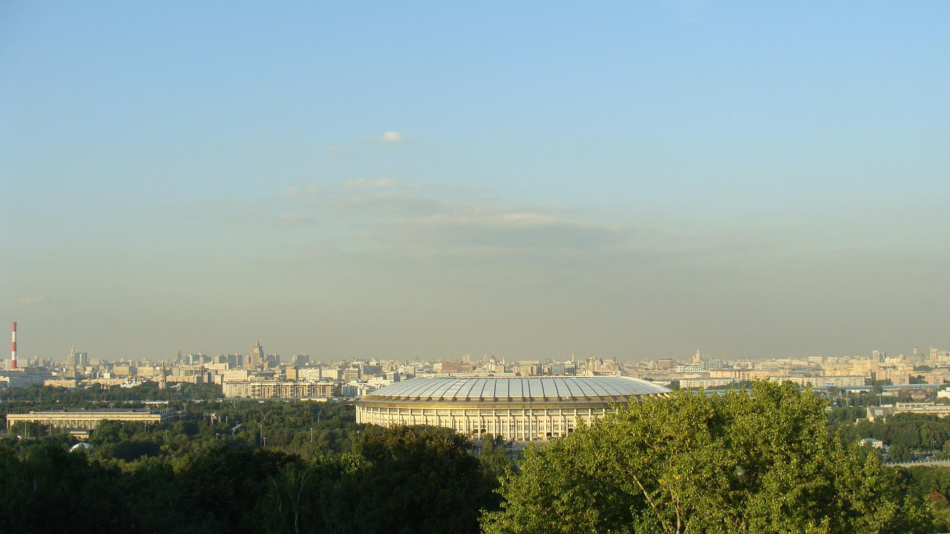 View of Moscow from the Sparrow Hills (better : Sparrow mountains)